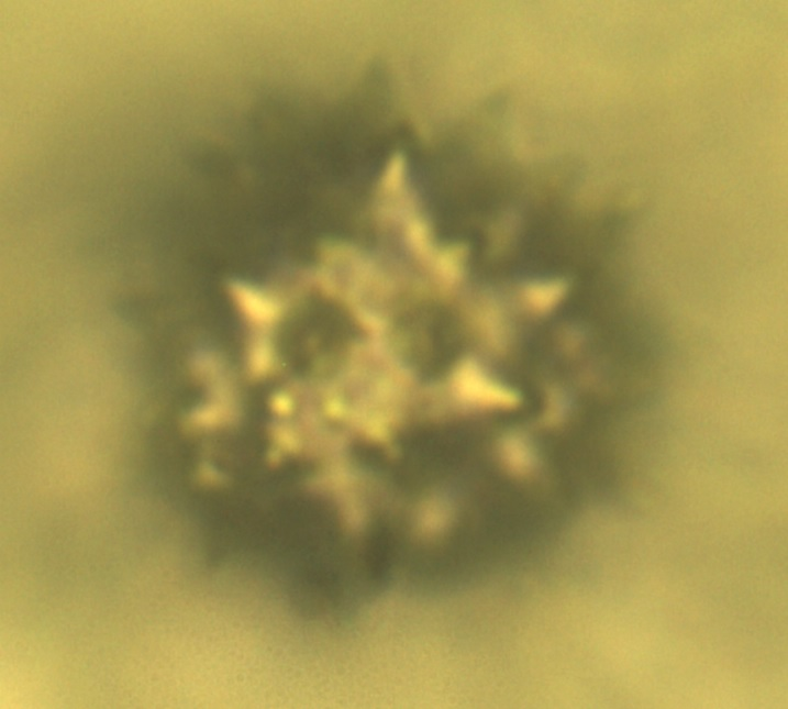 Capsella bursa-pastoris Pollen 400x